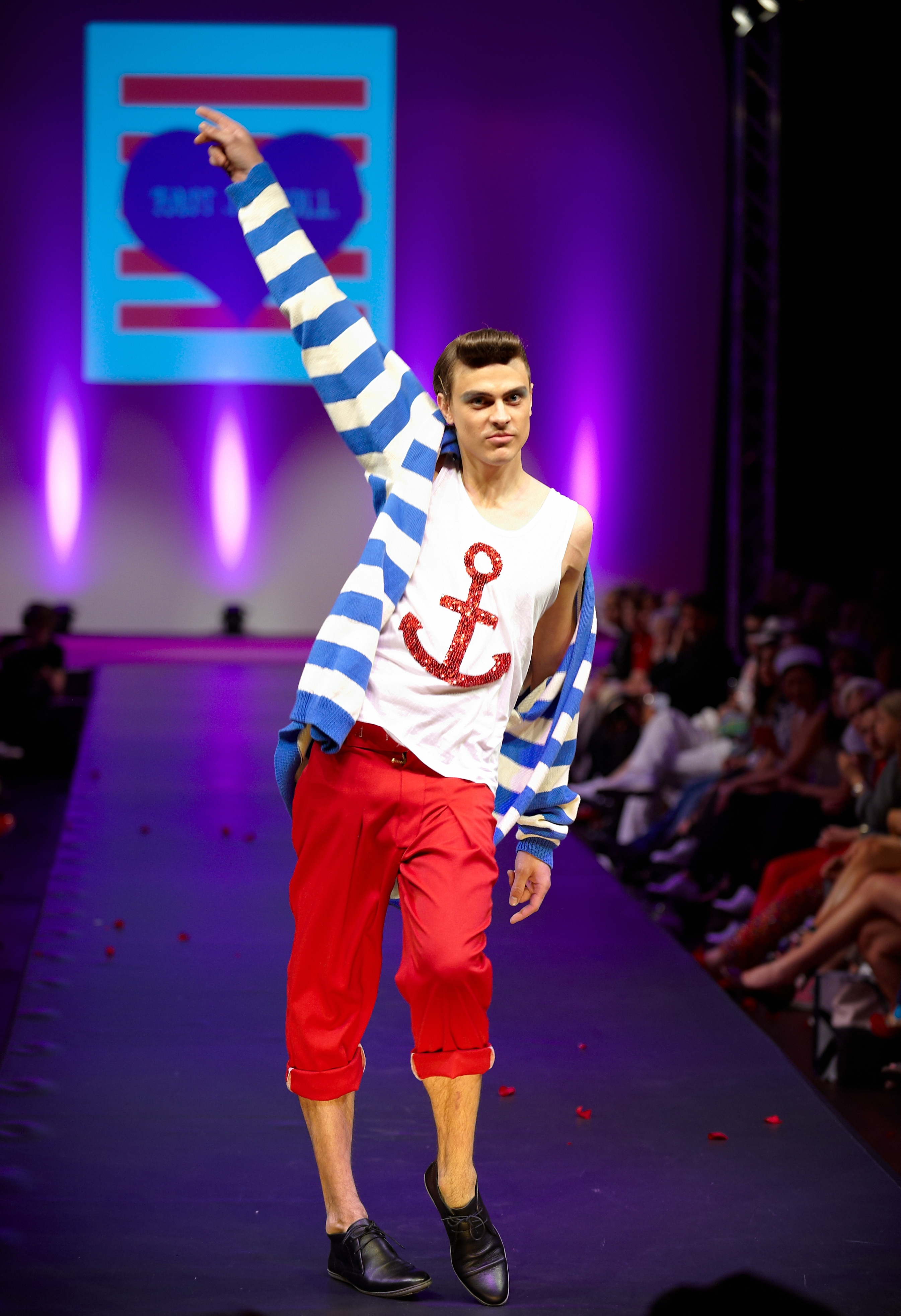 Oslo Fashion Week 2009 - Fam Irvoll